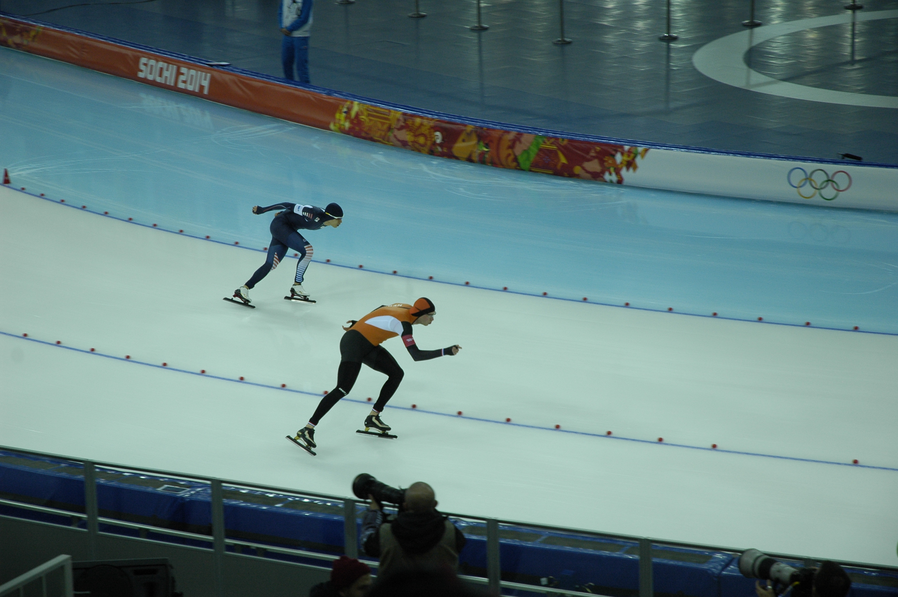 Men's 10000 m, 2014 Winter Olympics